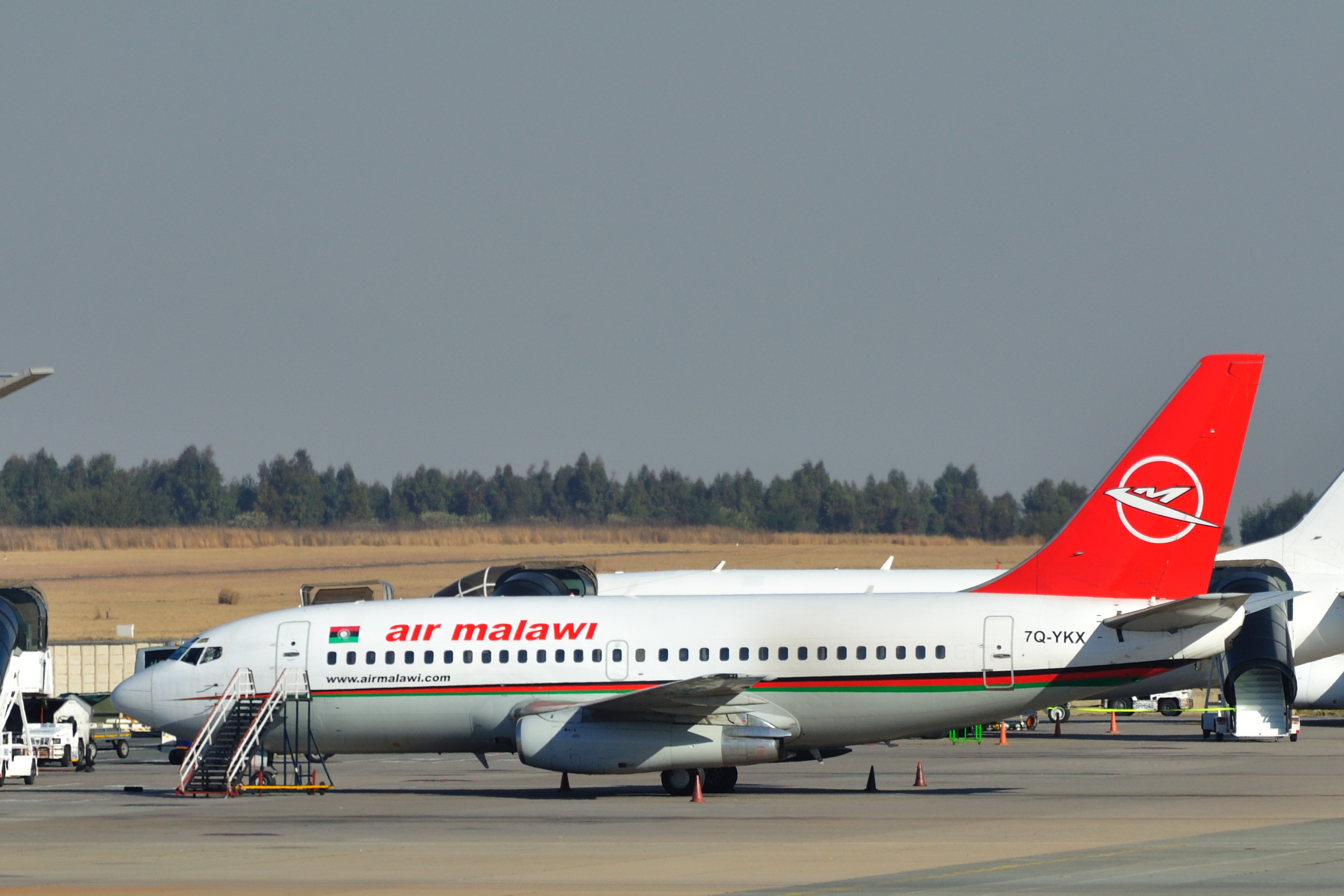 South Africa, spotting at OR Tambo International Airport